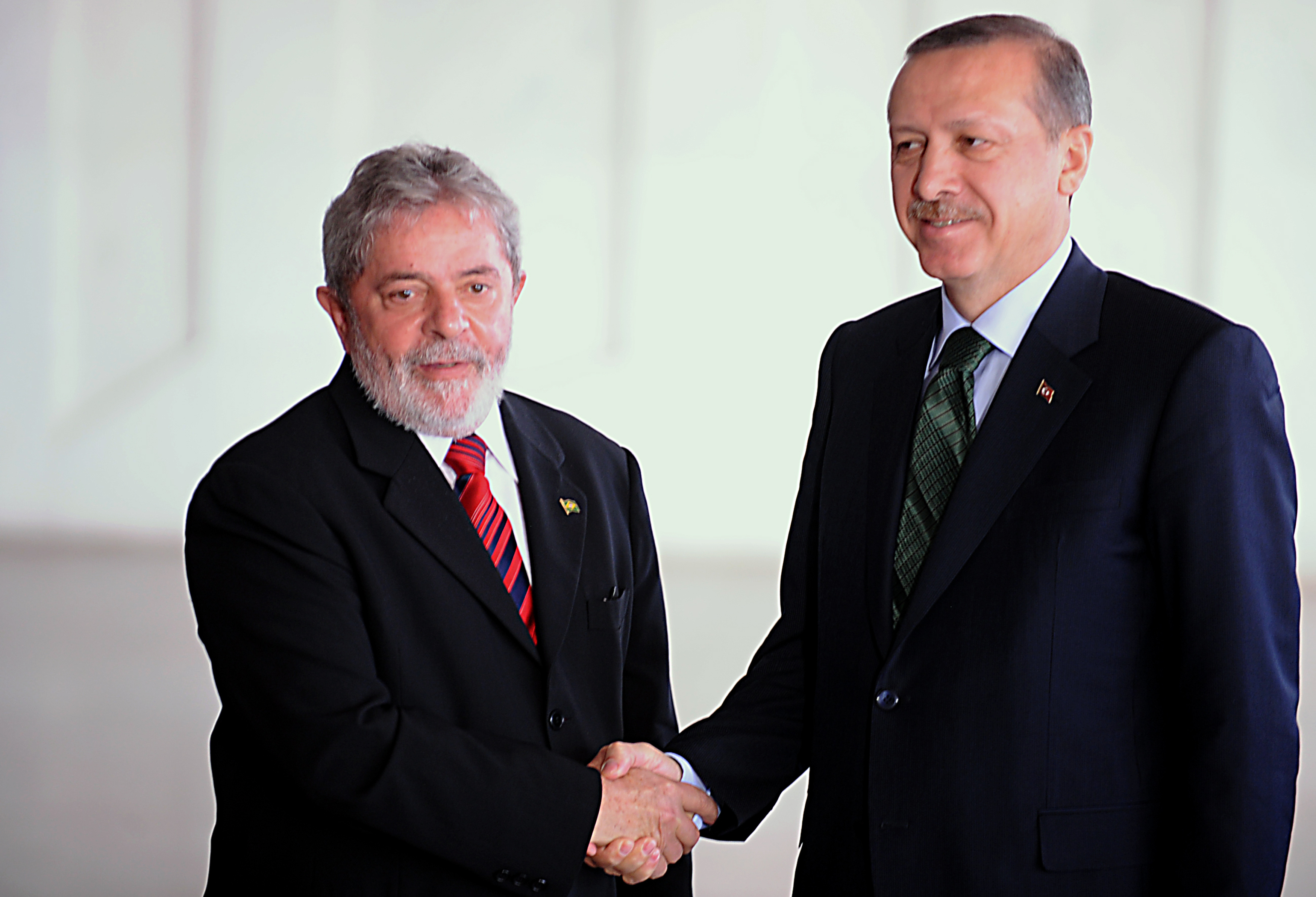 Brazilian President Lula and Turkish Prime Minister Recep Tayyip Erdogan.